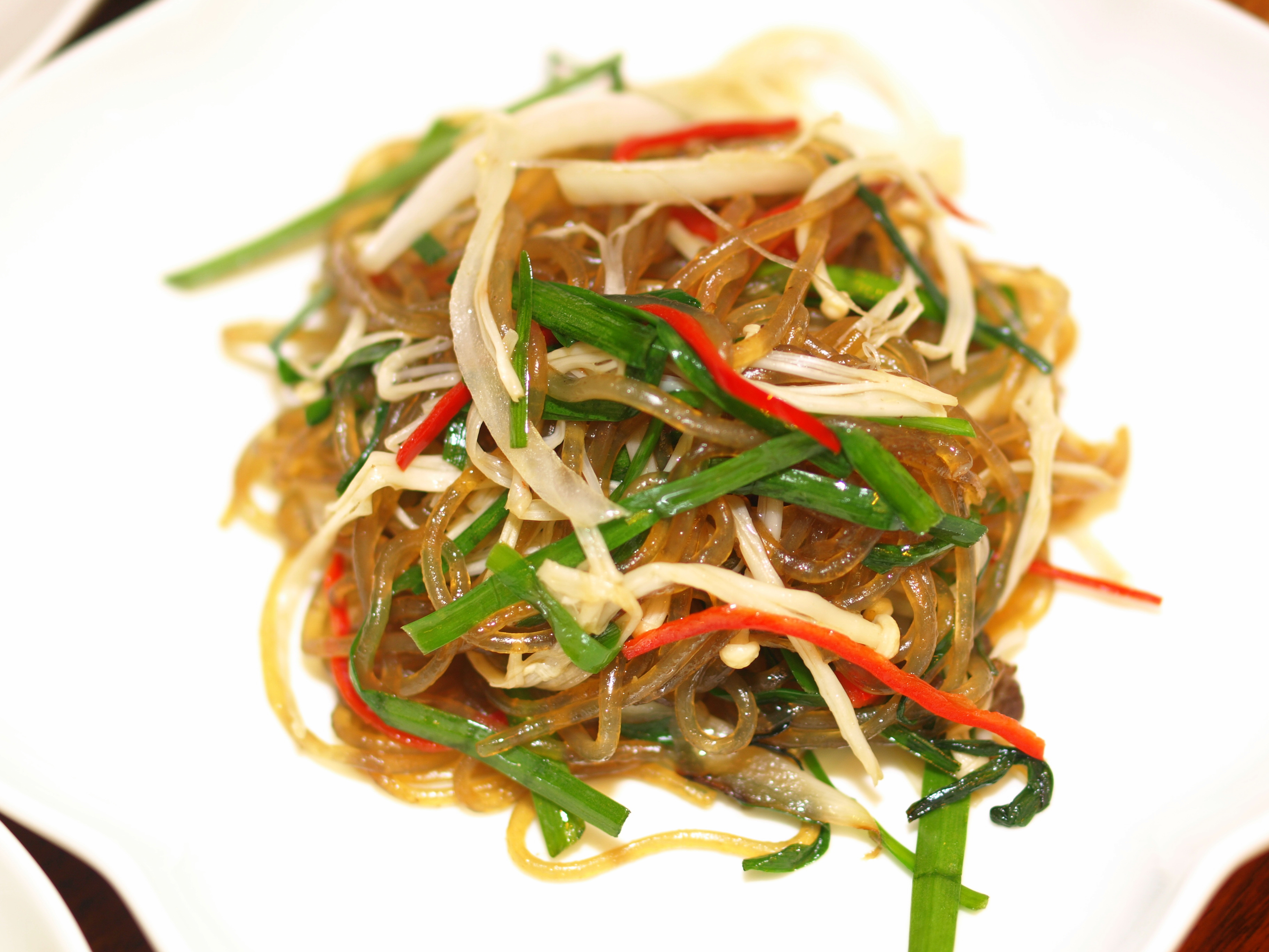 Korean cuisine-Japchae